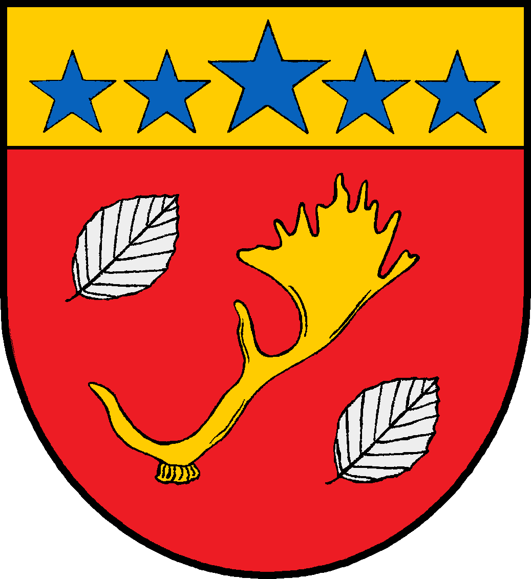 Coat of arms of the municipality Manhagen in Schleswig-Holstein, Germany.